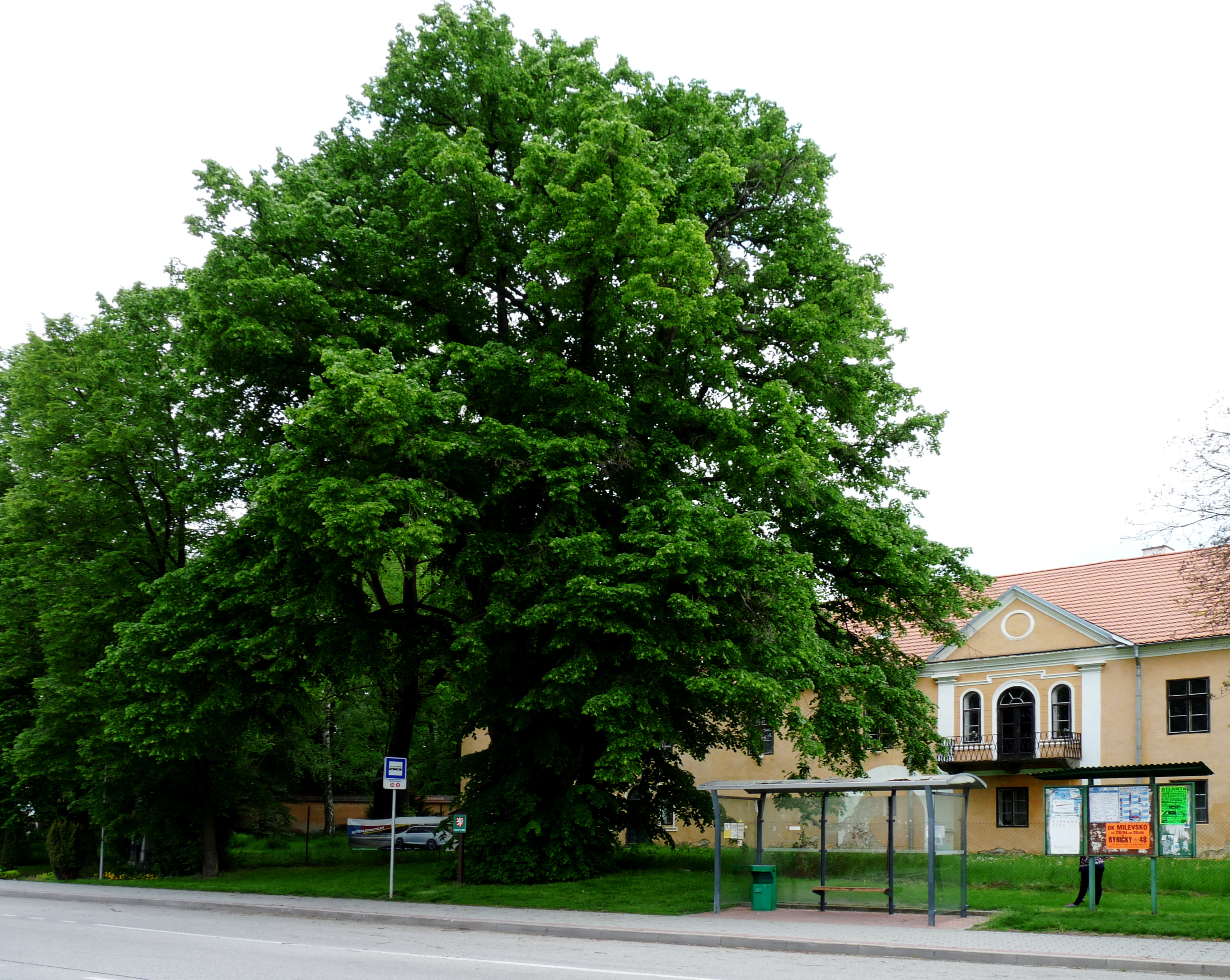 Tilia platyphyllos, a memorable tree in Měšice, part of the town of Tábor, South Bohemian Region, Czech Republic.